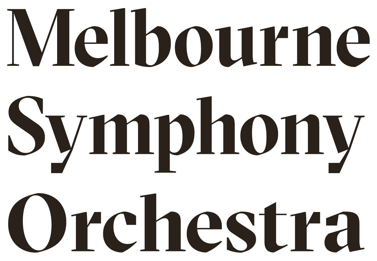 Logo